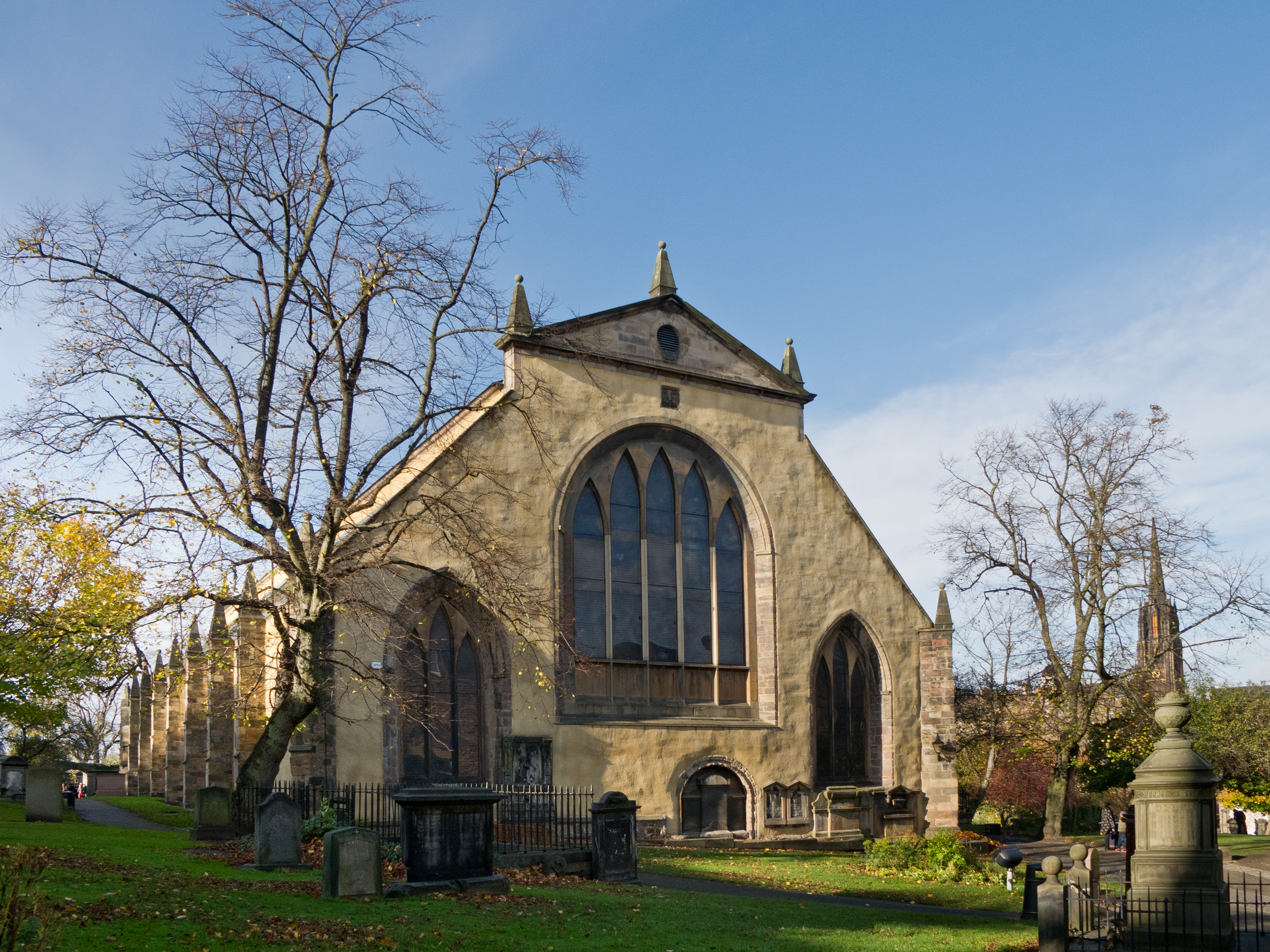 Greyfriars Kirk, Edinburgh, Scotland, UK. Wikidata has entry Q2113456 with data related to this building.